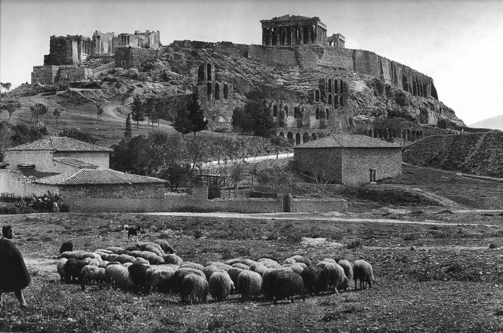 Photo of Acropolis of Athens taken in 1903 by Frederic Boissonnas